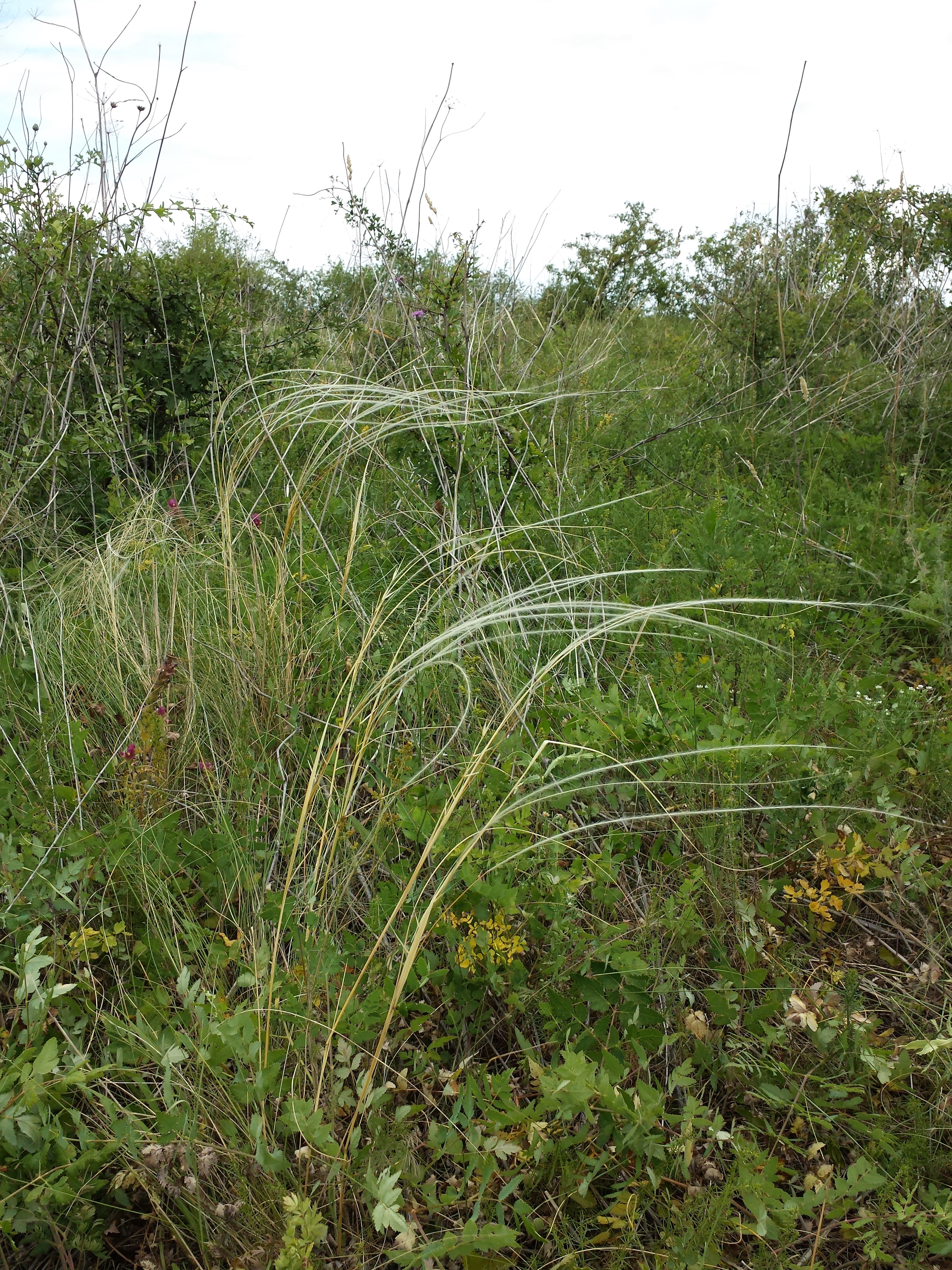 Habitus Taxon: Stipa tirsa (sensu Fischer et al. EfÖLS 2008 ISBN 978-3-85474-187-9; det. W. Adler 2014-06-21) Location: Heidberg bei Wildendürnbach, district Mistelbach, Lower Austria - ca. 250 m a.s.l. Habitat: dry grassland on ballast